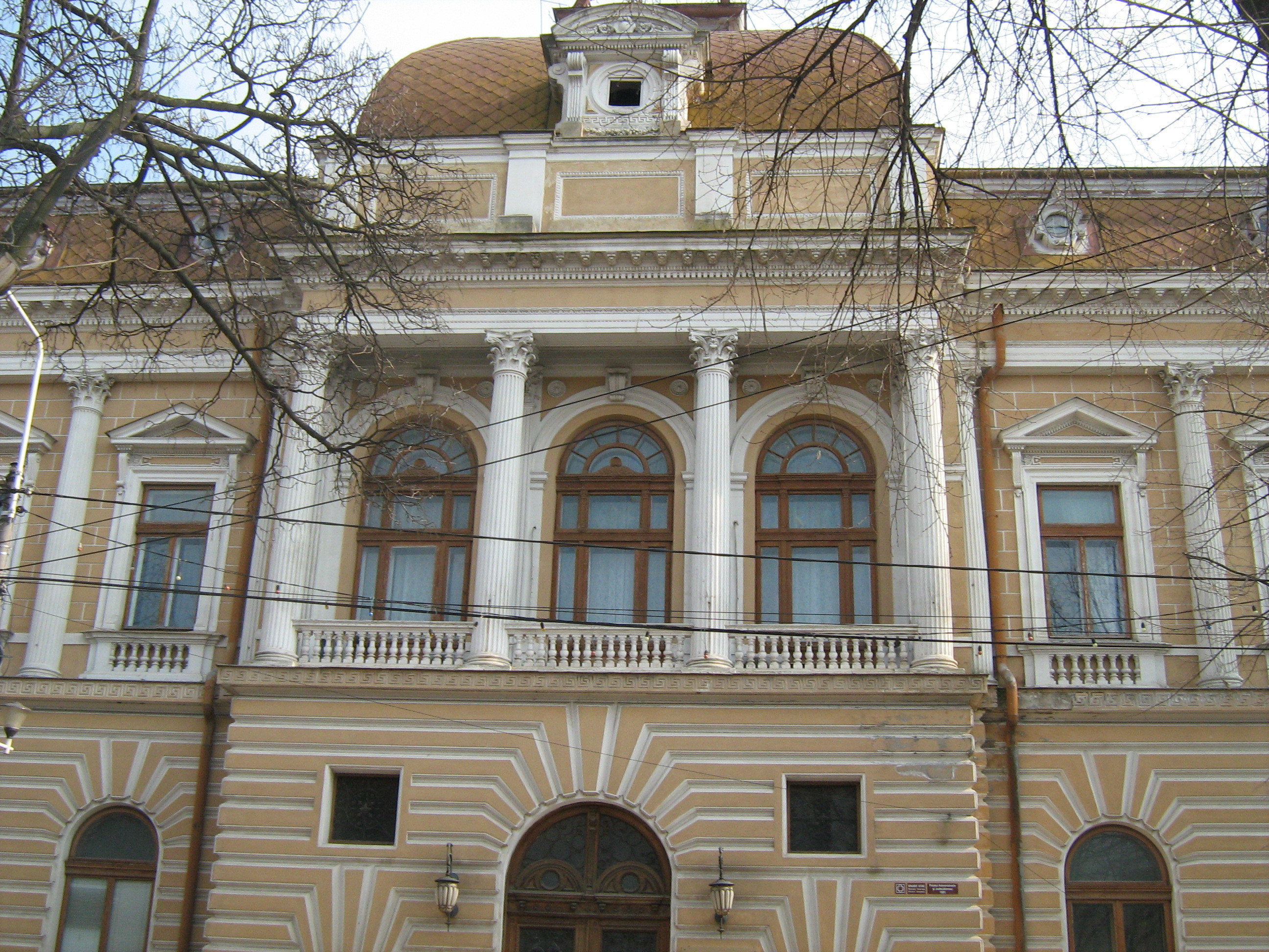 Facultatea de Inginerie din Braila / Faculty of Engineering of Braila